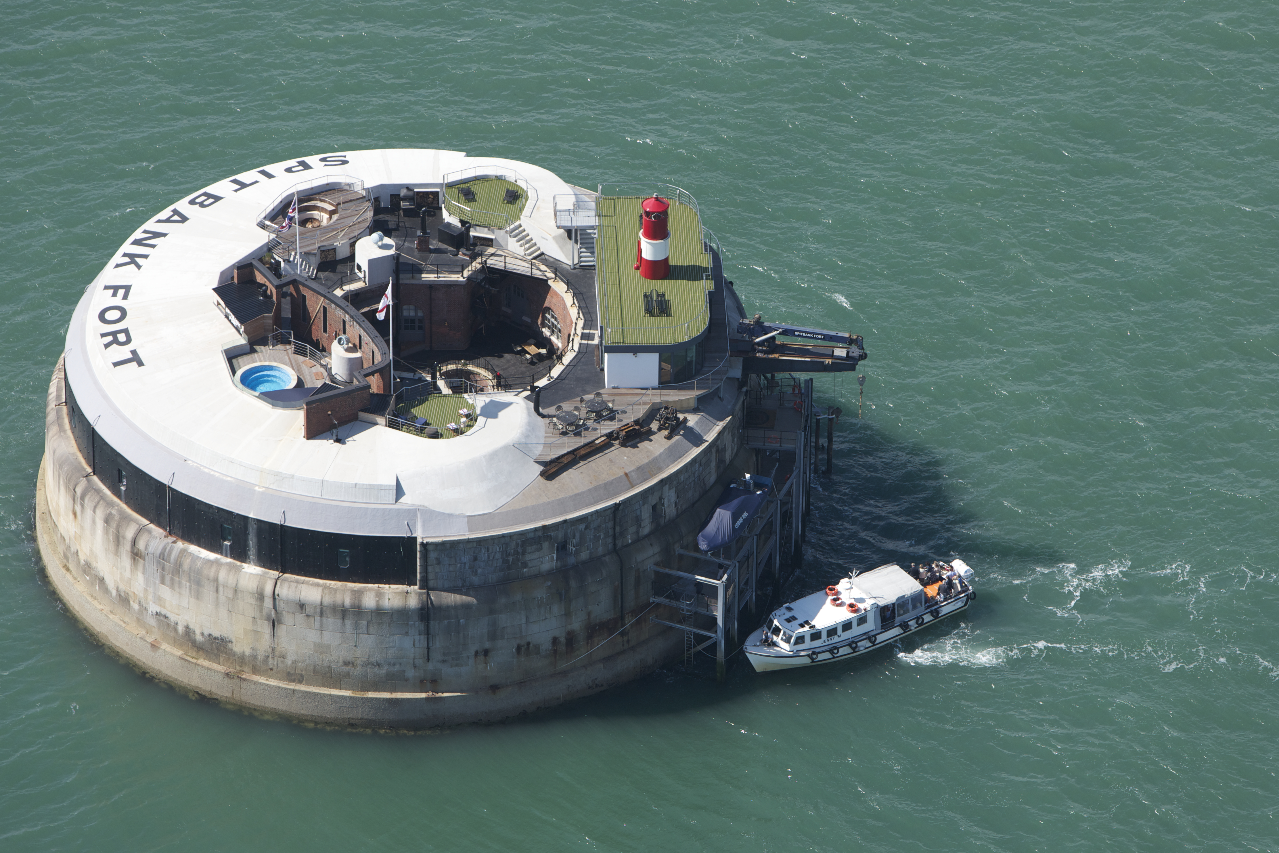 Guests Arriving at Spitbank Fort